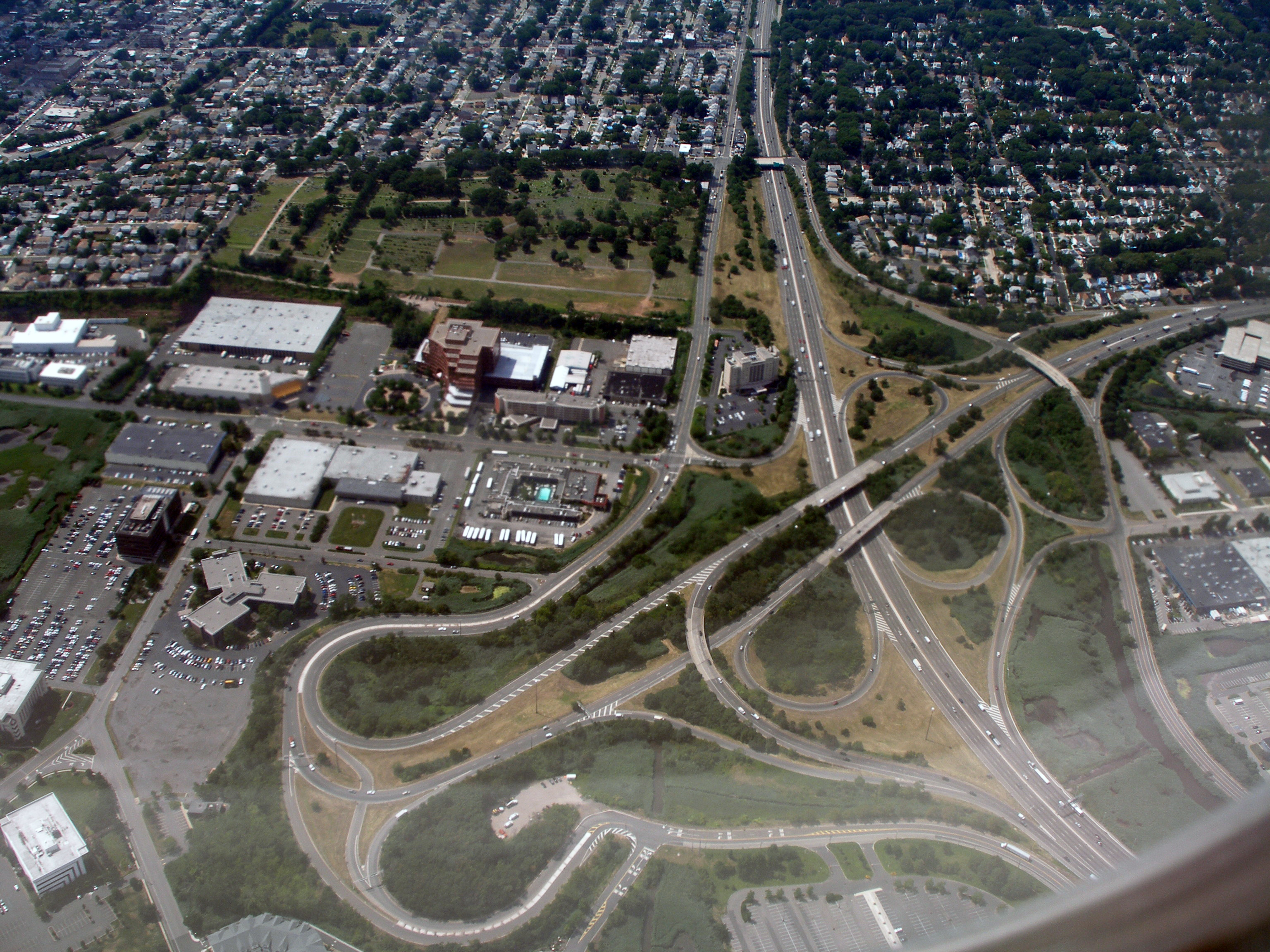 The interchange of Routes 3 and 17 at Rutherford, New Jersey, as seen from the airplane, looking west